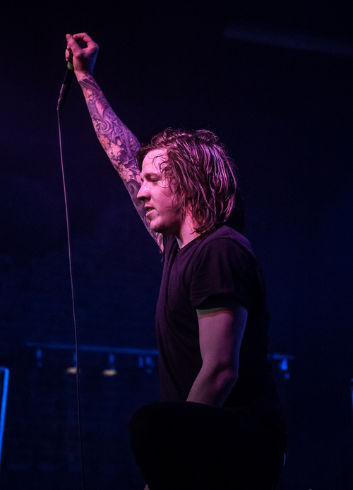 Bleed From Within's vocalist Sean Kennedy performing in Germany in 2013.